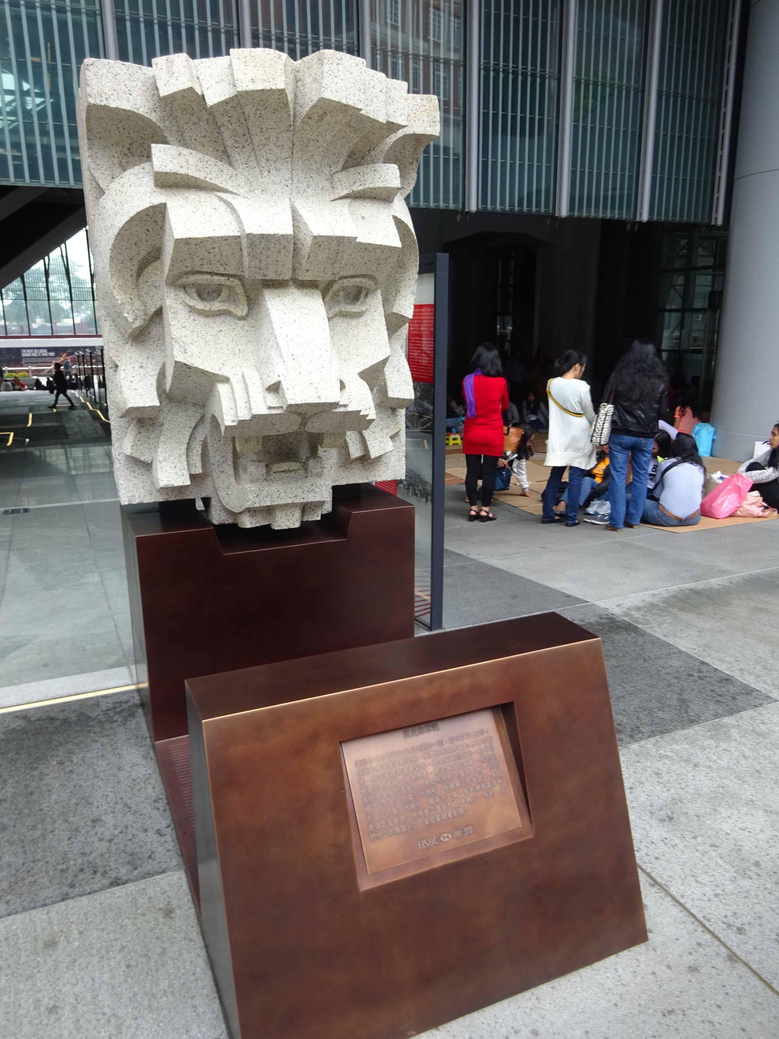 HK Central Queen's Road HSBC HQ ground floor square statue stone lion head April 2016